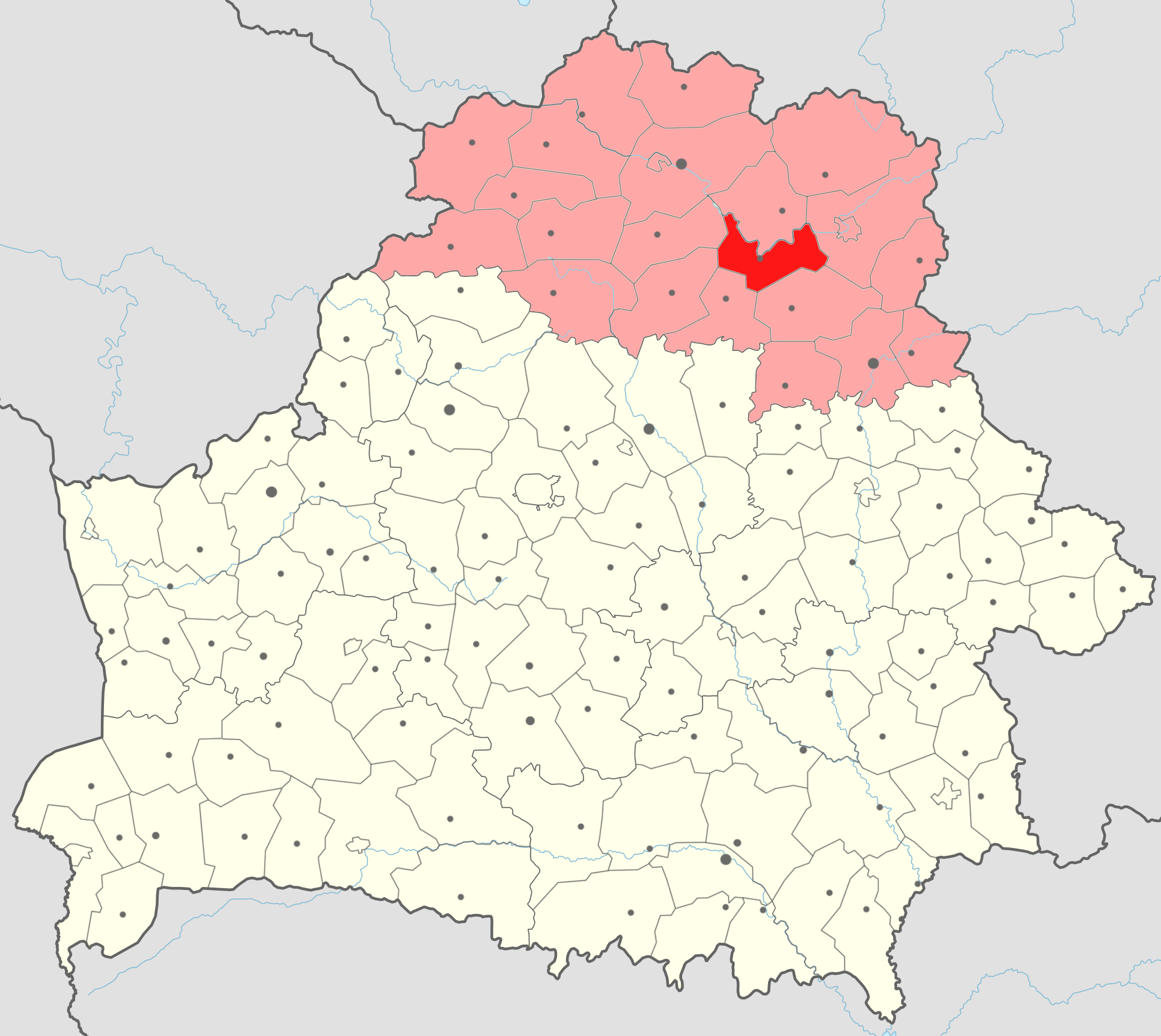 Map of Biešankovicki raion (in red) with Viciebskaja voblast' (in light red) on the map of Belarus.